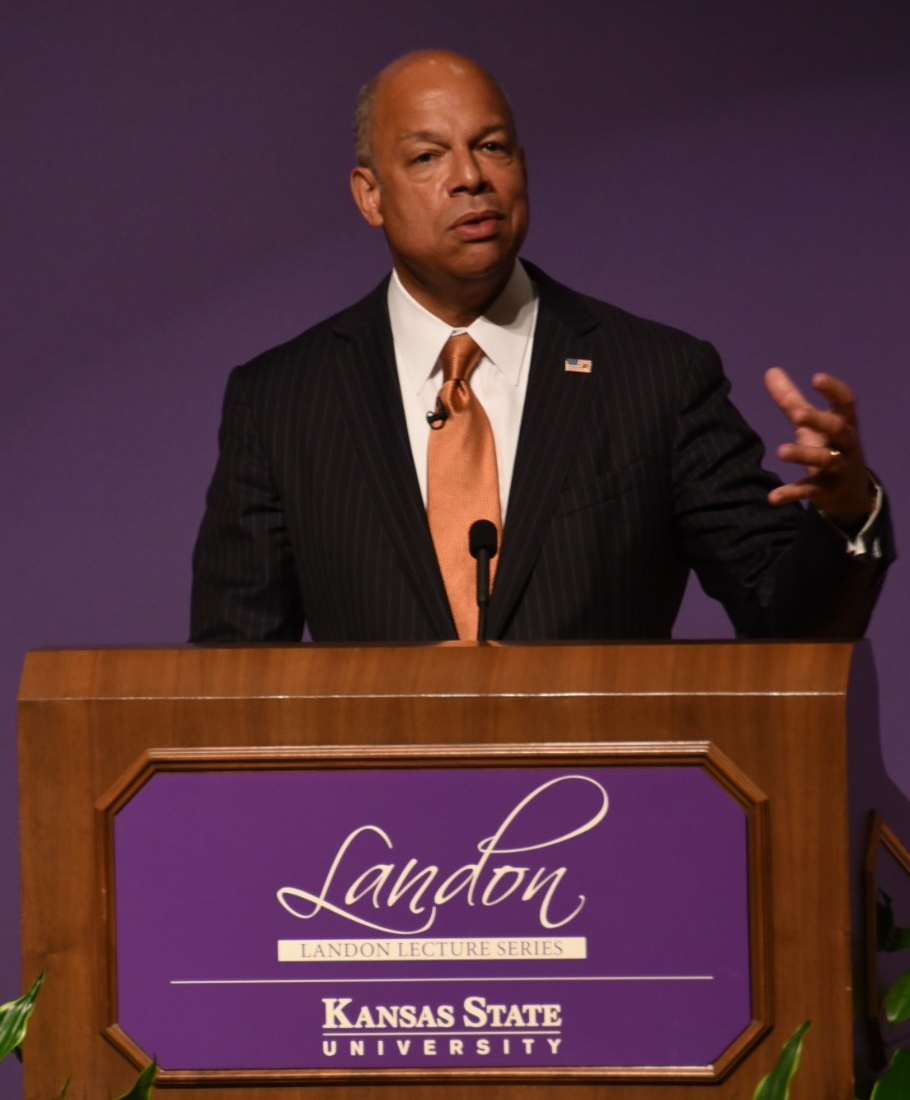 MANHATTAN, Kan. - Secretary of Homeland Security Jeh Johnson delivers “The New Realities Of Homeland Security” the 167th Landon Lecture Series on Public Issues, held at Kansas State University in Manhattan, Kansas, May 26, 2015. During his remarks, Secretary Johnson spoke about the department’s efforts to secure our country against global terrorist threats including “foreign fighters”, which are more decentralized, more complex, and in many respects harder to detect. Official DHS photo by Jetta Disco.